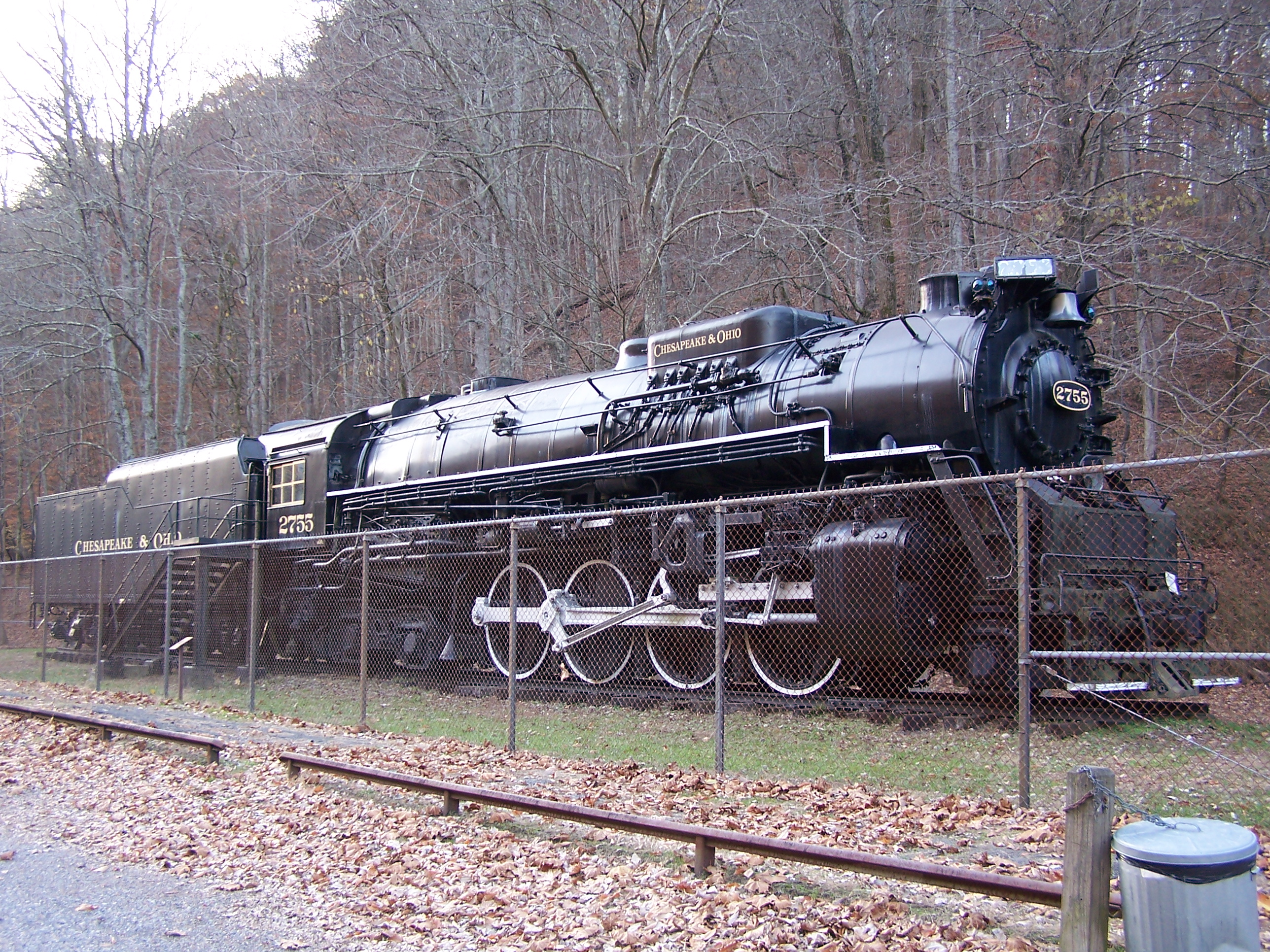 Photo of C&O 2755 at Chief Logan State Park.